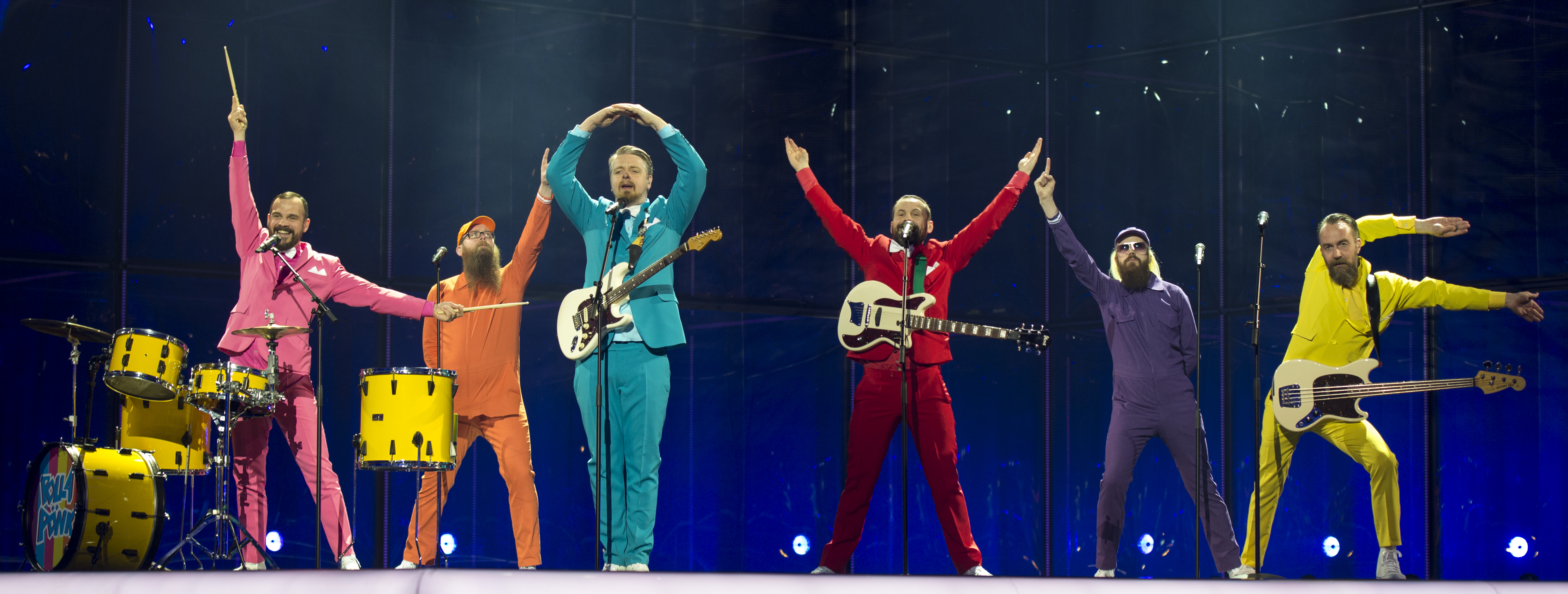 Pollapönk representing Iceland with the song "Enga fordóma" during the first dress rehearsal of the first semi final of the Eurovision Song Contest 2014 Copenhagen. (Help translate this text)